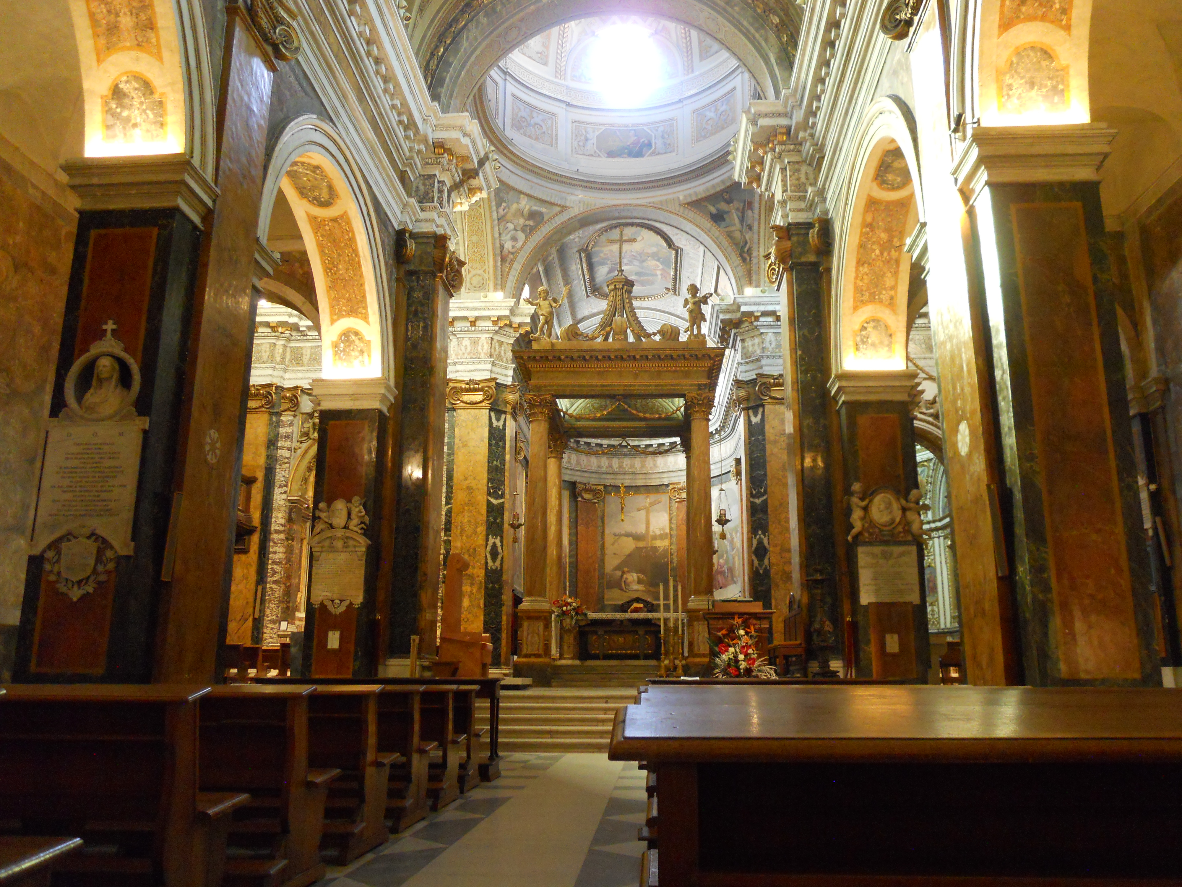 Central nave - Cathedral of Rieti (Lazio, Italy)